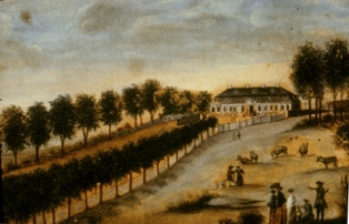 The house that succeeded present-day Kokkedal Slot in Hørsholm, Denmark